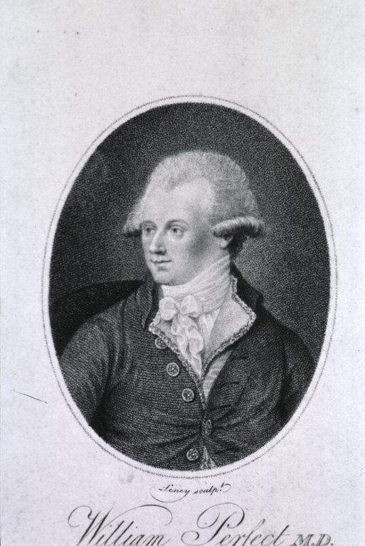 William Perfect (1737-1809), M.D. Oval medallion; seated, front pose, head to left. HMD Prints & Photos, Portrait no. 645.